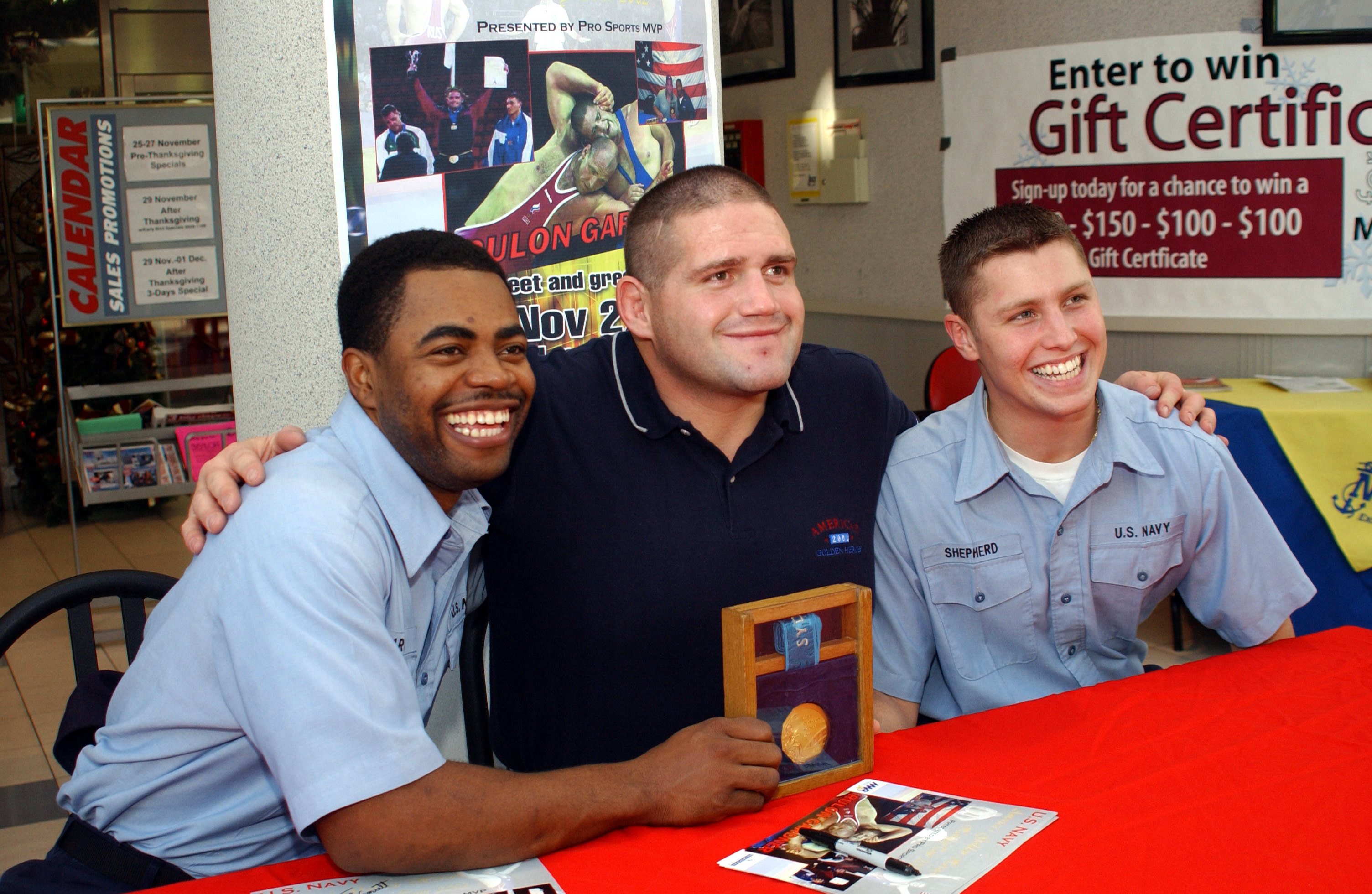 021127-N-3503M-001 Naval Air Facility, Atsugi, Japan (Nov. 27, 2002) -- U.S. Navy Dental Technicians Gerrick Garet from Los Angeles, Calif., and Anthony Shepherd from Dayton, Iowa, pose with Olympic Wrestling Gold Medalist Rulon Gardner. The 2000 Olympic Wrestling Champ is visiting Atsugi, Japan, as a show of his appreciation for armed services stationed within the region. U.S. Navy photo by Photographer’s Mate 2nd Class Joshua C. Millage. (RELEASED)